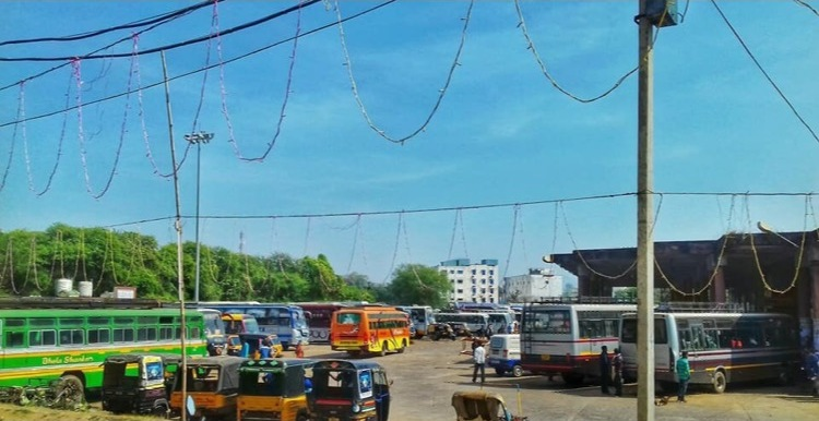 Government Bus Stand, Bhawanipatna (OSRTC)